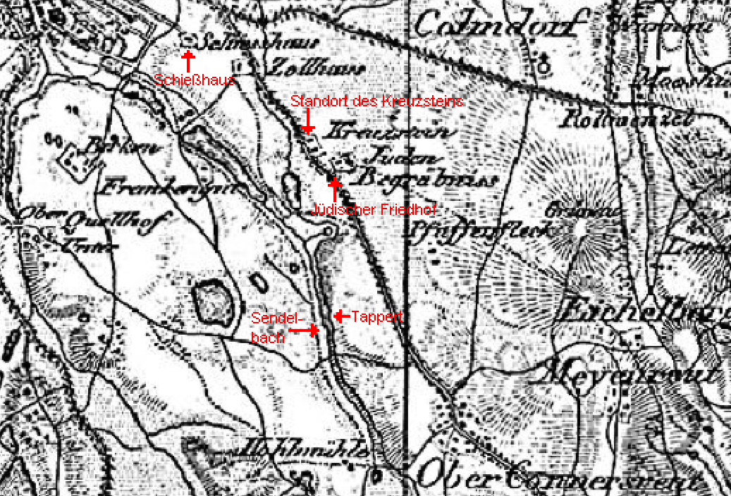 Bayreuth Kreuzstein map before 1864